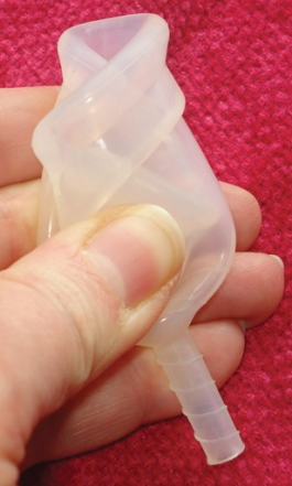 Menstrual cup Lotus Fold (Femmecup)